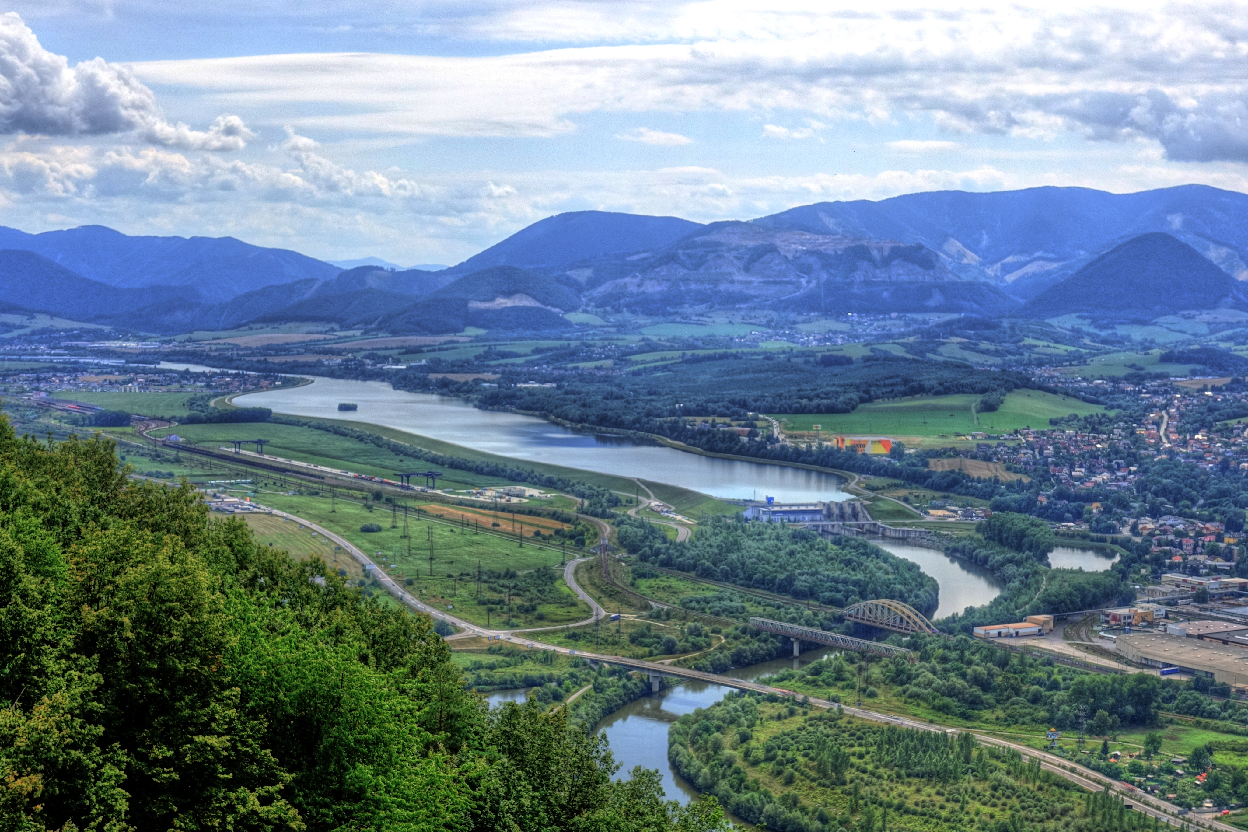 Žilina Reservoir. View from the lookout tower on the ridge of Dubeň. Tone-mapped HDR image created from 9 pictures with shift of 0,3 EV.